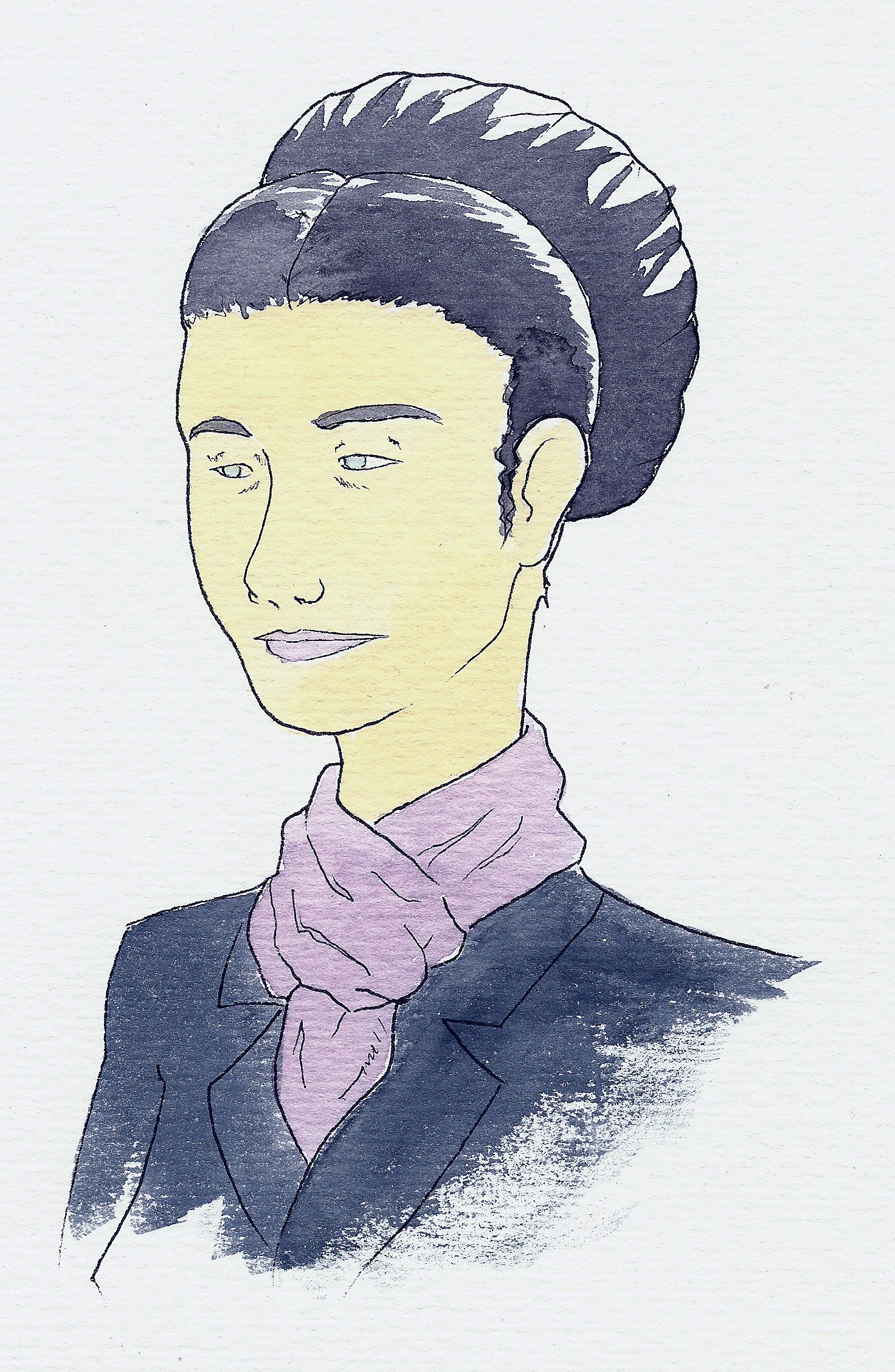 Simone de Beauvoir (1908-1986) french philosopher. Ink and watercolor